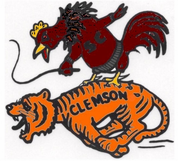 The transparency causing riots in the South Carolina v. Clemson football game